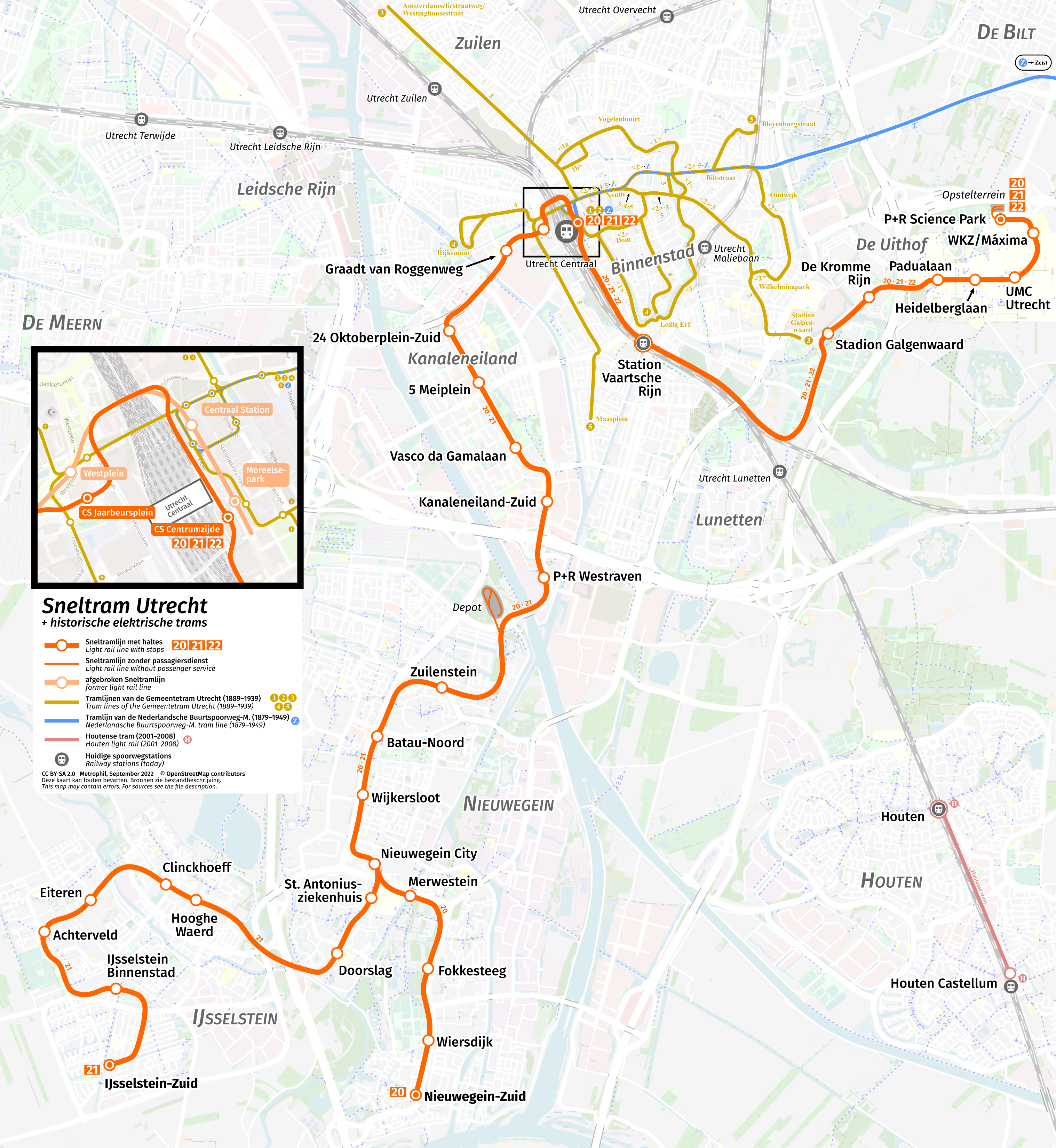 Map of the Utrecht tram system. It features: currently operating tram lines 22, 60 and 61 (Utrecht sneltram) the former Gemeentetram Utrecht tram network as of 1936 (Source: „Utrecht 1936“ on the Tundria website (accessed 10 May 2020), File:Gemeentetram Utrecht LIJNENNET 1908.jpg) the former Nederlandsche Buurtspoorweg-Maatschappij interurban tram line Utrecht–Zeist as of 1936 (Source: „Utrecht 1936“ on the Tundria website) the former Houten tram line railway stations in the Utrecht area